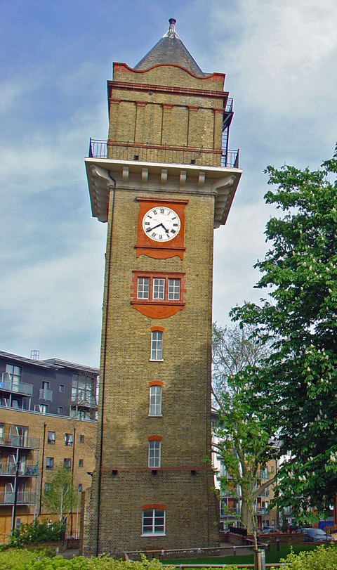 Water tower with clock in Hither Green, southeast London. This was part of the former Royal Park Fever Hospital site. The tower and hospital were designed by Edwin T. Hall, the architect behind London's Liberty department store [1].